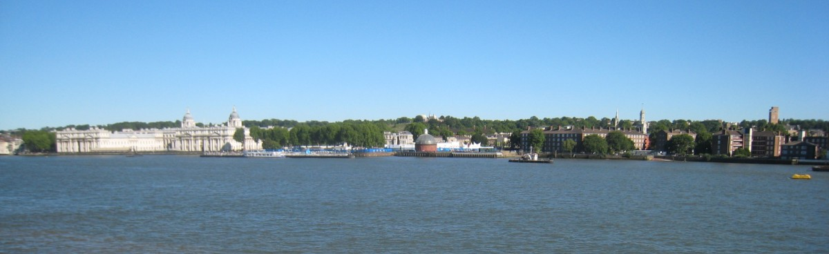 Full view of Greenwich, as seen from Island Gardens